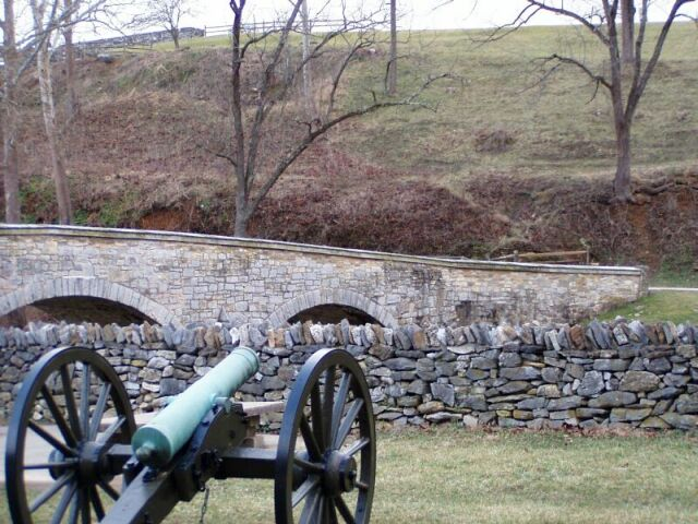 Union Positions below the Confederates at Burnside Bridge